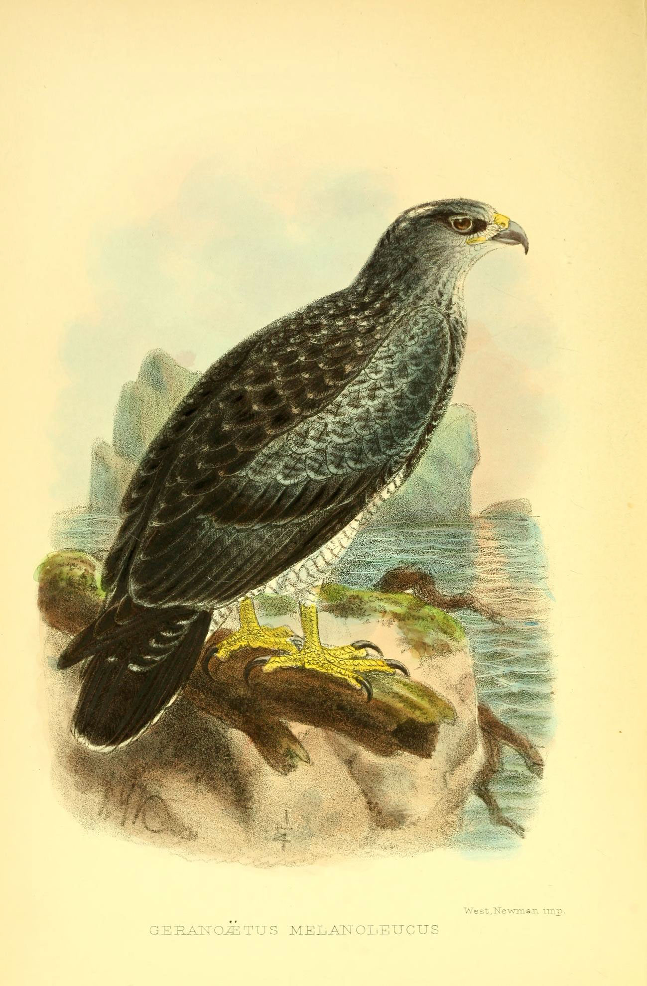 The birds of Tierra del Fuego London :B. Quaritch,1907.